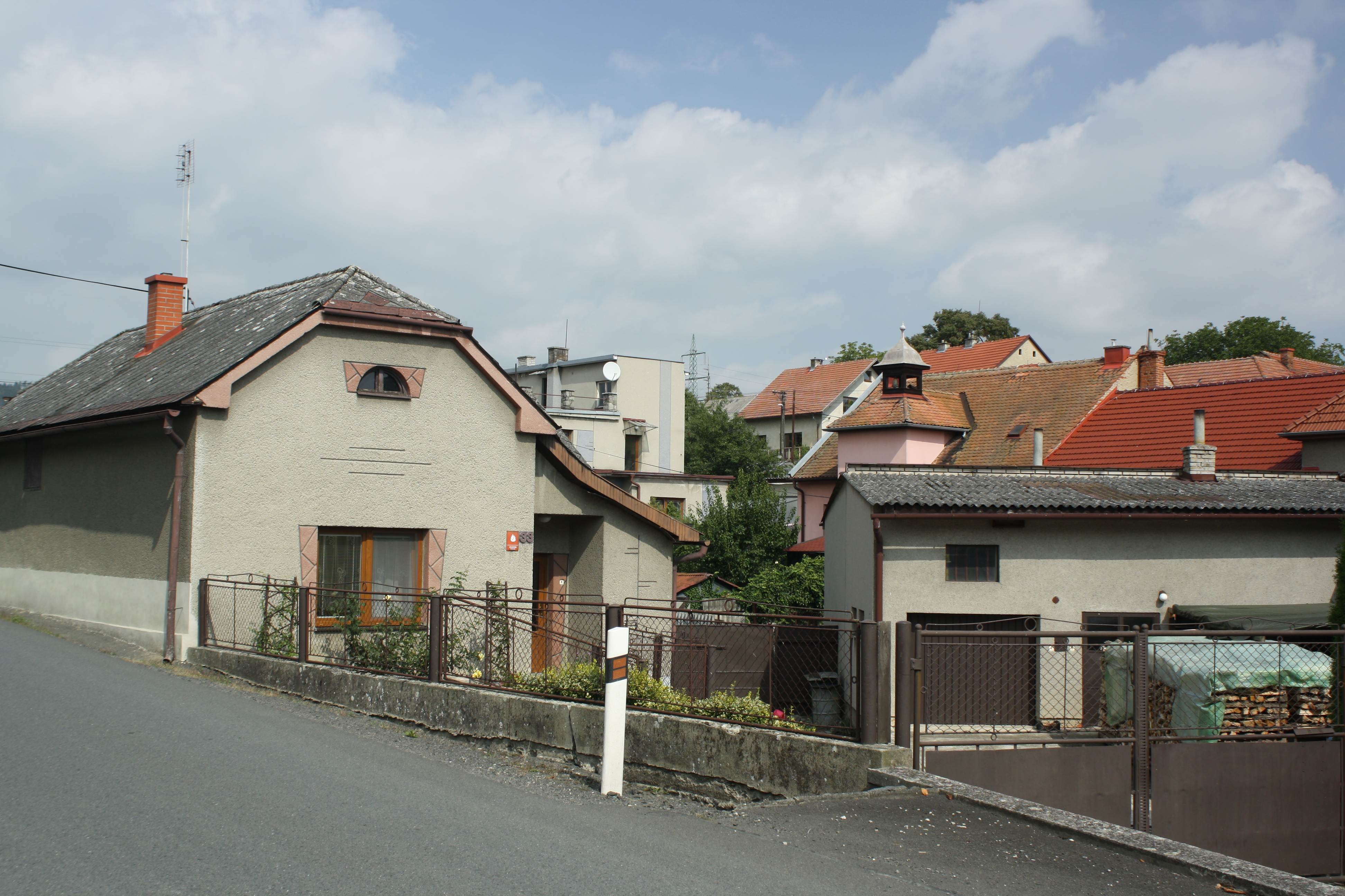 Municipality Klokočí, Přerov District, Moravian-Silesian Region, Czechia